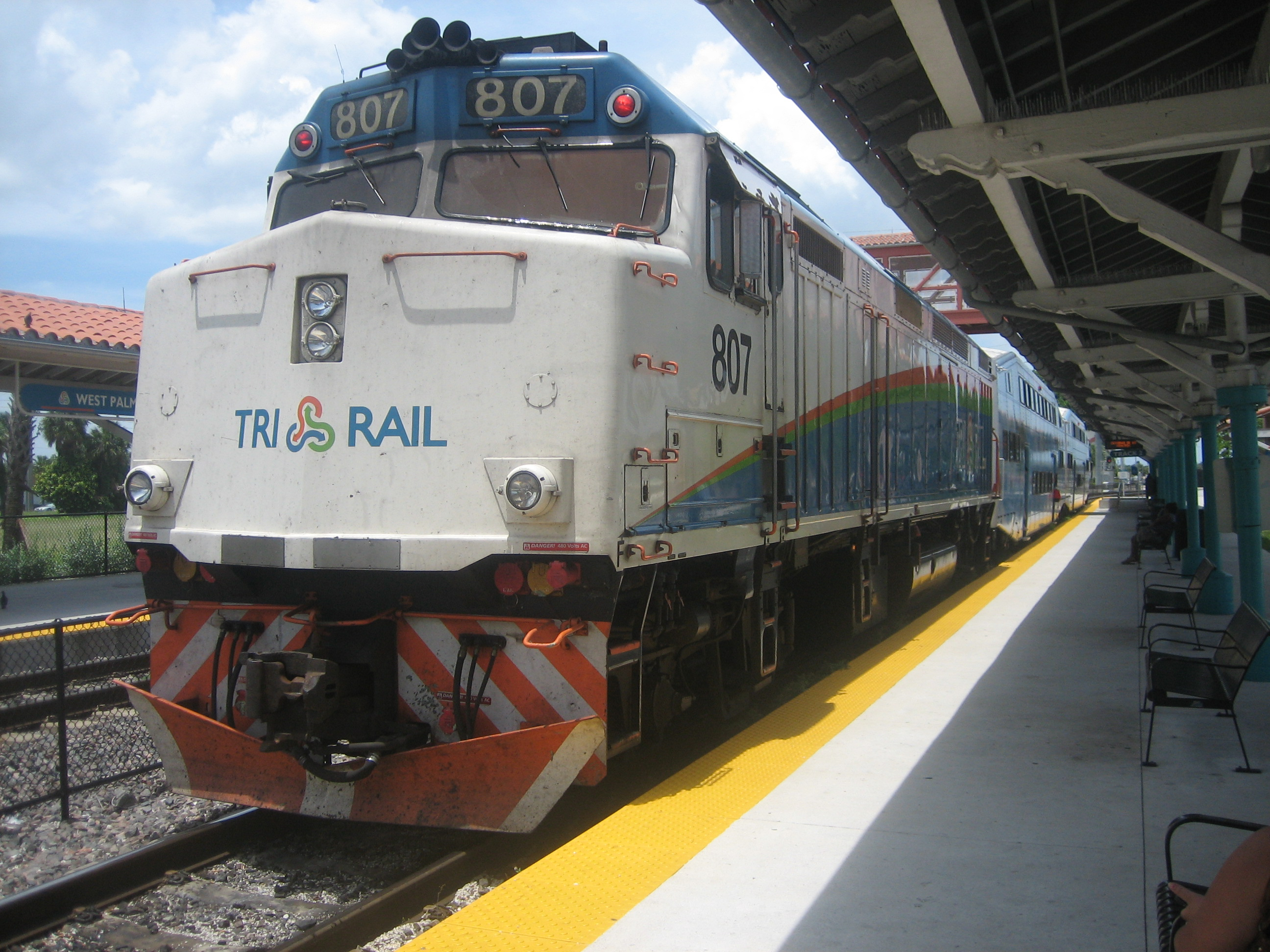 A northbound EMD F40PH in Tri-Rail livery at the West Palm Beach station.